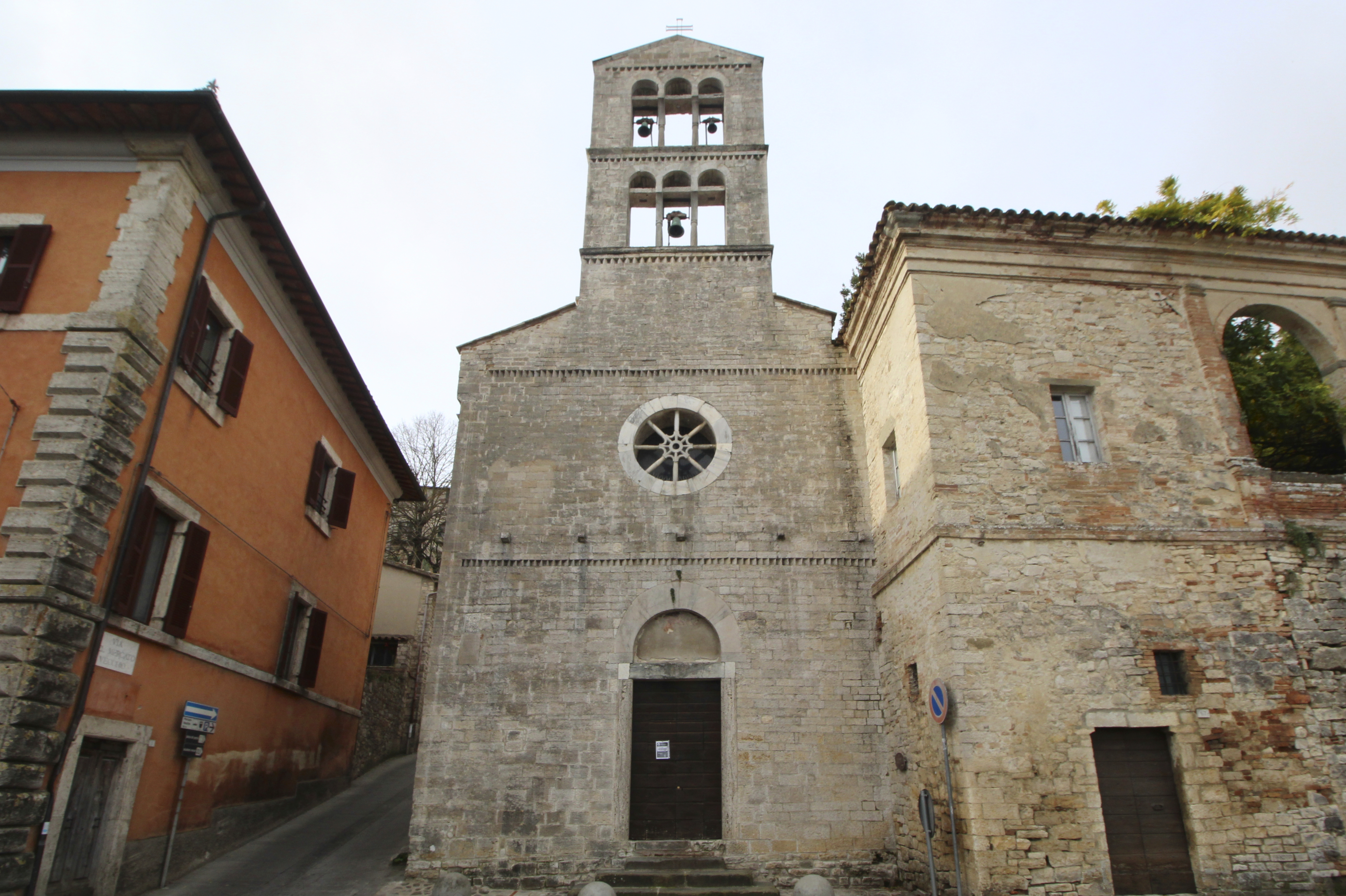 Church San Carlo (also Sant’Ilario), Todi, Province of Perugia, Umbria, Italy